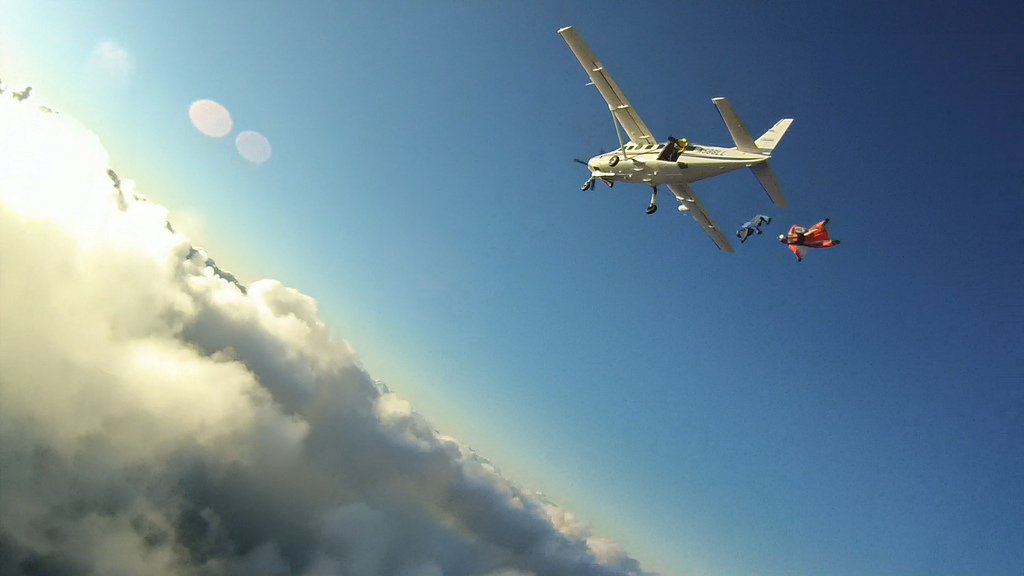 Quick Exit over Cloud Gap